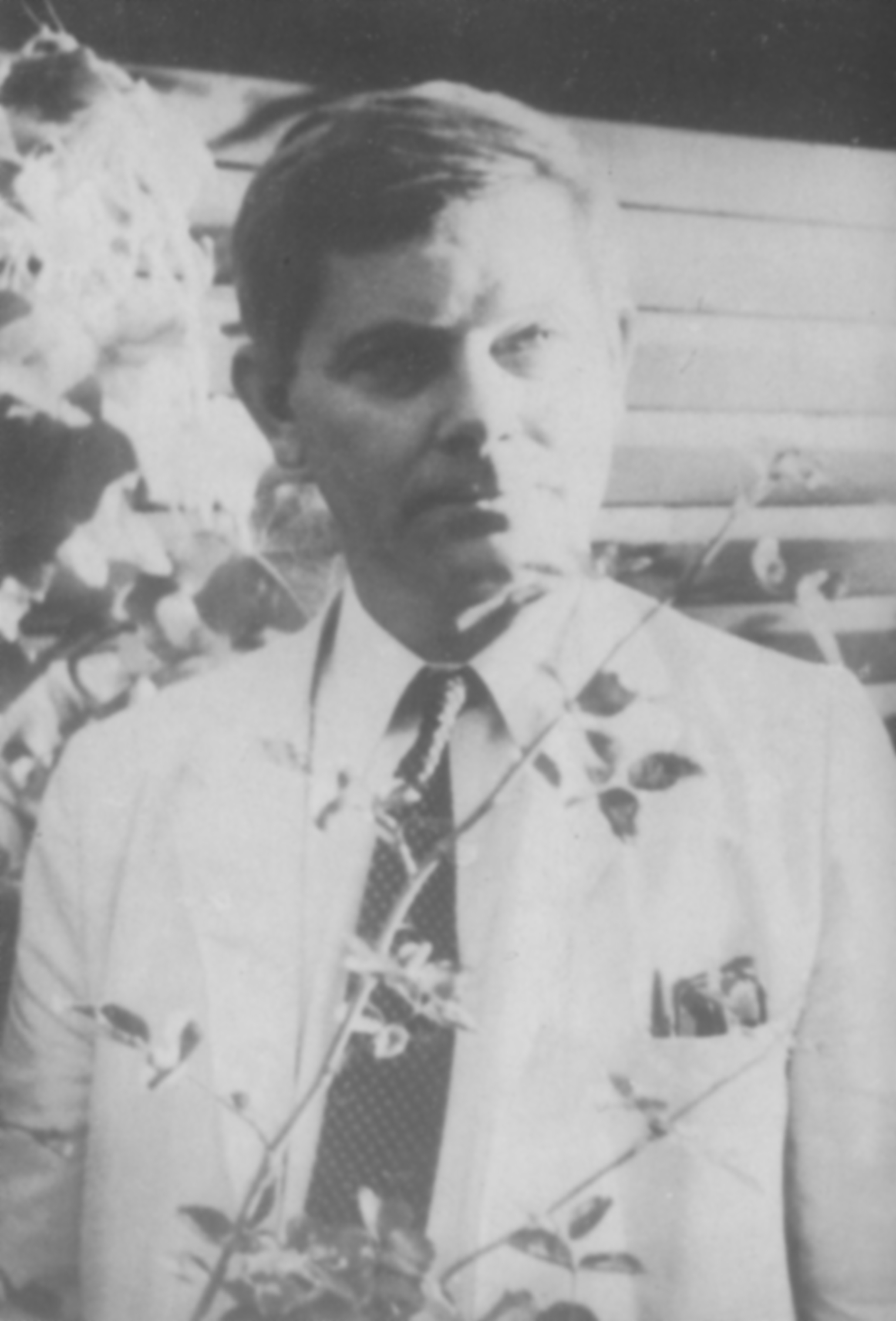 Photograph of Zbigniew Herbert.